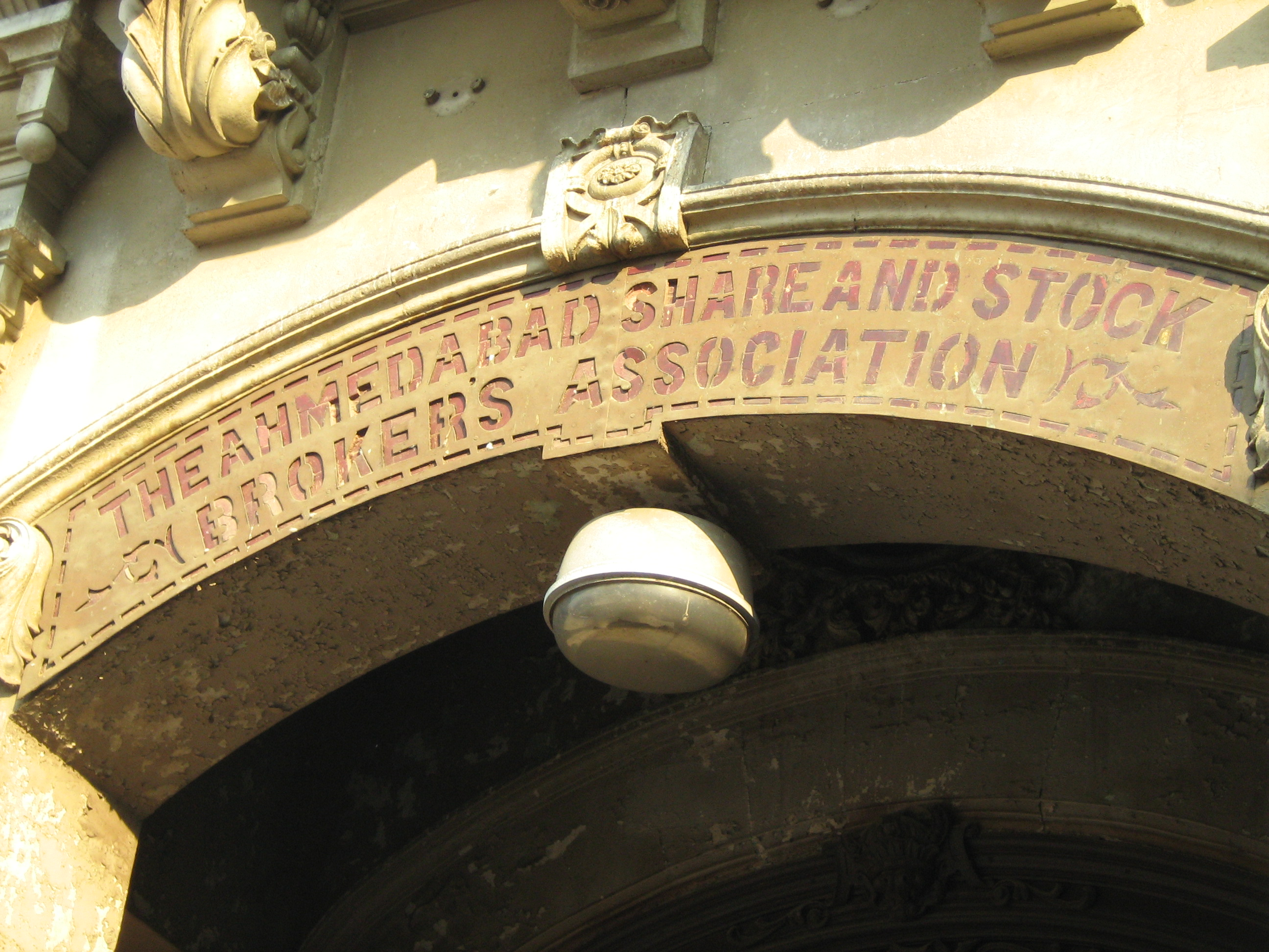 Photos of Ahmedabad's Walled City taken during the Heritage Walk conducted jointly by Ahmedabad Municipal Corporation and the CRUTA Foundation